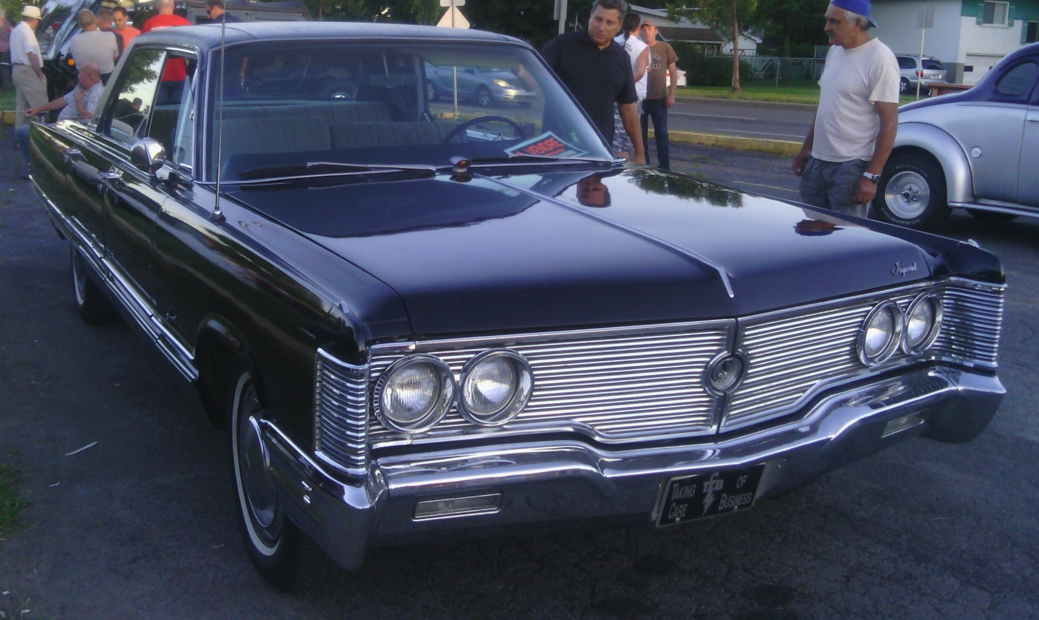 1968 Imperial photographed in Brossard, Quebec, Canada at Auto classique Combos 2014.